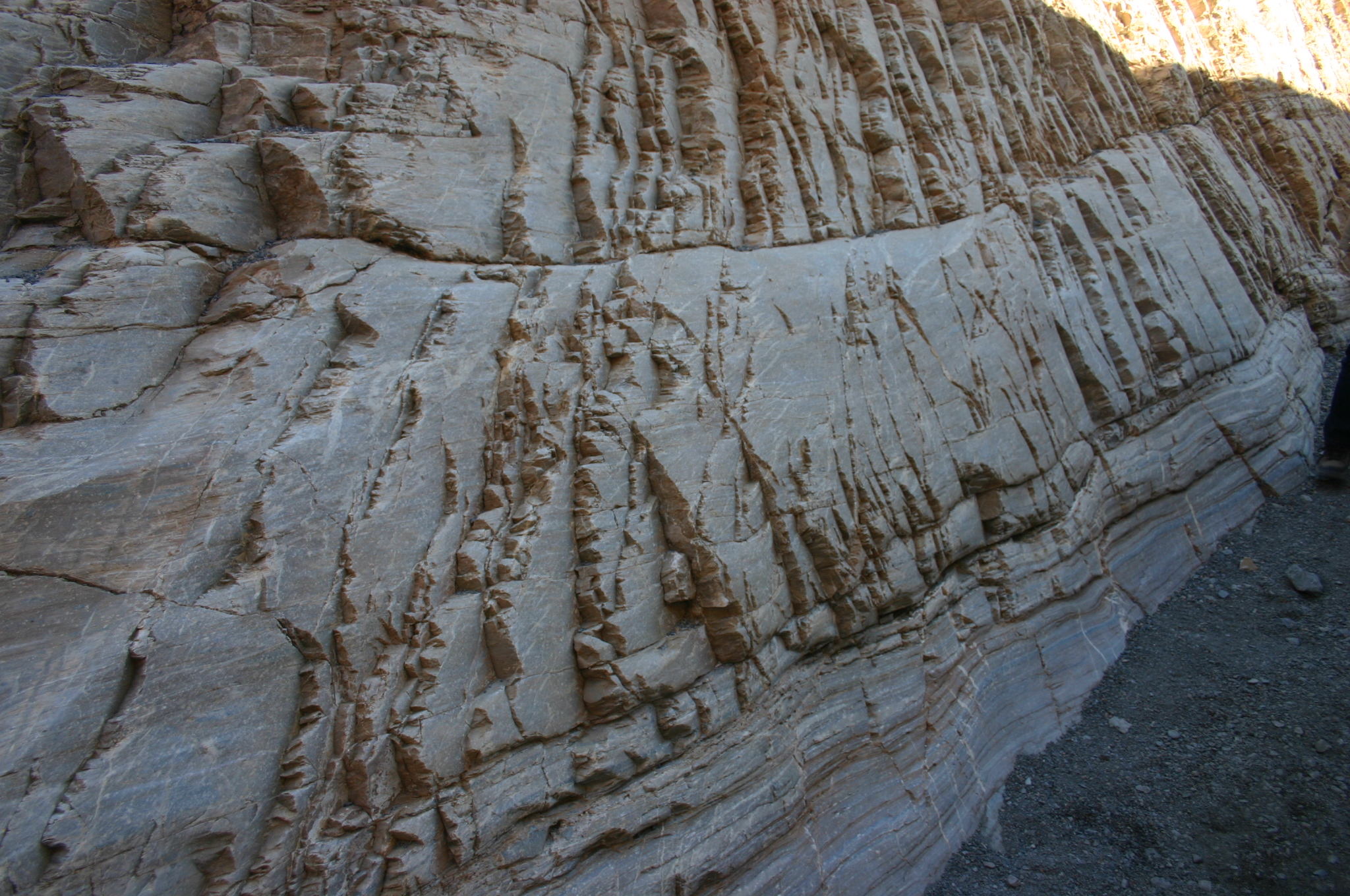 The upper layers of rock are affected by a close-spaced set of fractures. These are metamorphosed dolomites of the Neoproterozoic Noonday Formation.